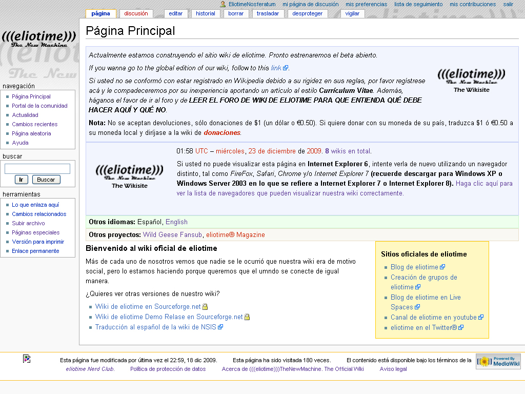 A sample of a ficticious (no too much ficticious) Wiki made by me using Mediawiki